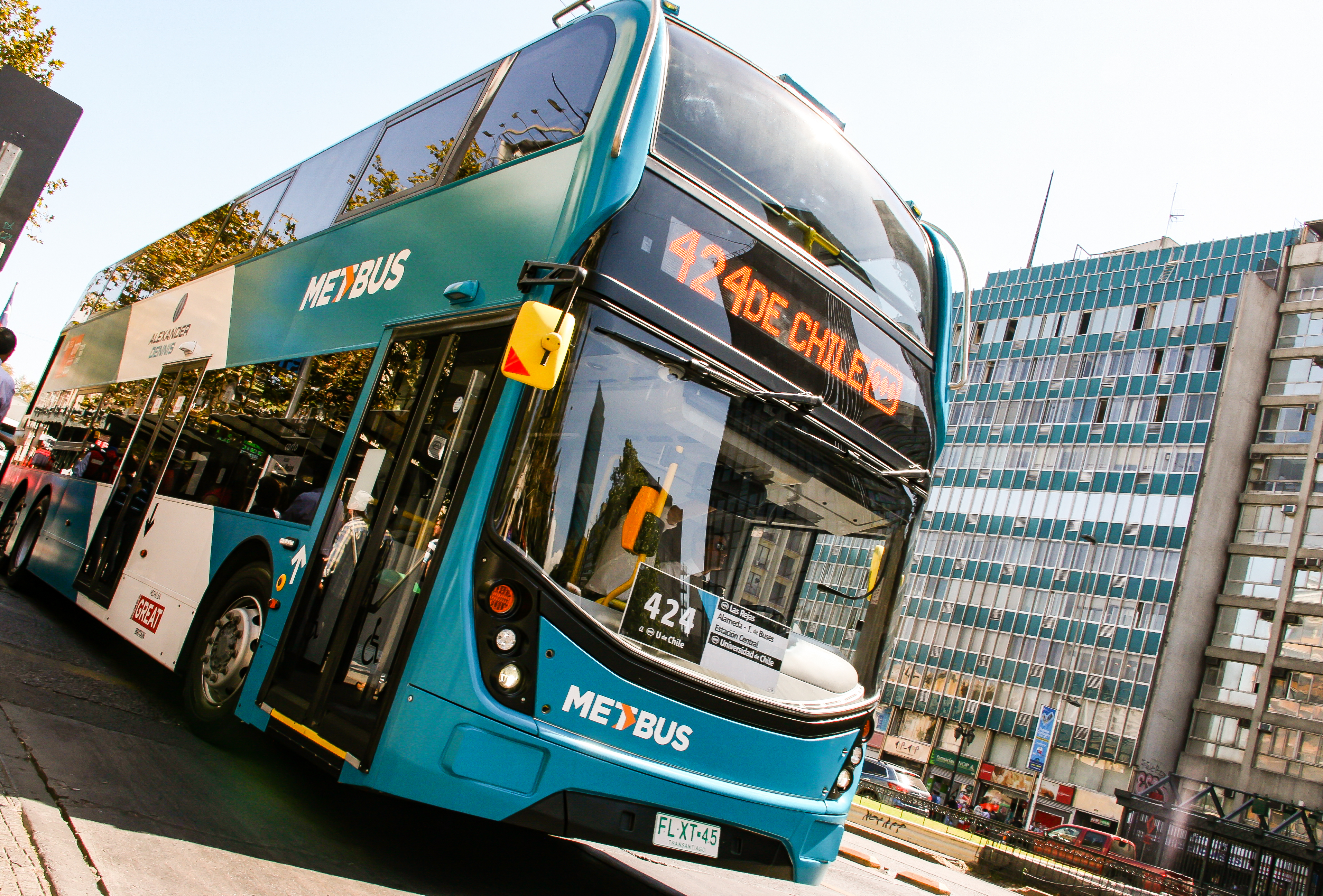 424c bus, operated by Metbus